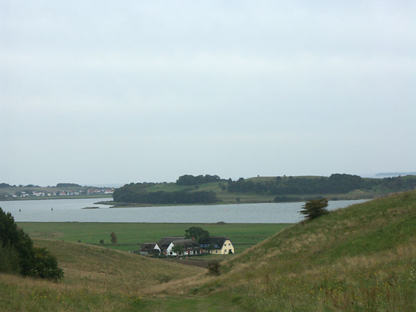 Rügen - Mönchgut